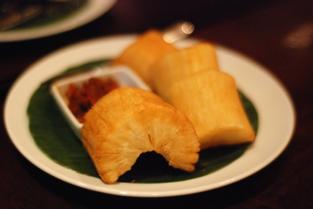 Fried cassava at Alun Alun. Jakarta, Indonesia This work is licensed under Creative Commons 2.0 Generic. You are free to share and to remix with attribution.